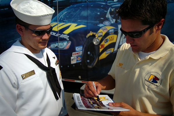 Aviation Boatswains Mate 2nd Class Elias Rodriguez receives an autograph from the No.14 Navy Dodge Charger NASCAR driver David Stremme at the Navy “Accelerate you Life,” display at Richmond International Raceway.